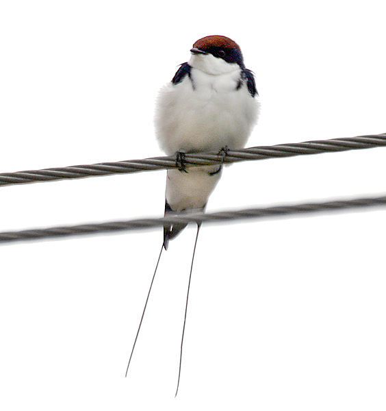 Wire-tailed Swallow Hirundo smithii- Hindi: Leishra, Pun: Tarpunjha, Guj: Leshara ababil, Tharpunch tharodiyu, Mar: Tarwali, Tarshepti bhingri, Mal: Kambivalan kathrikakkili, Kan: Sarige balada kavalu tokae- at Pocharam lake, Andhra Pradesh, India.